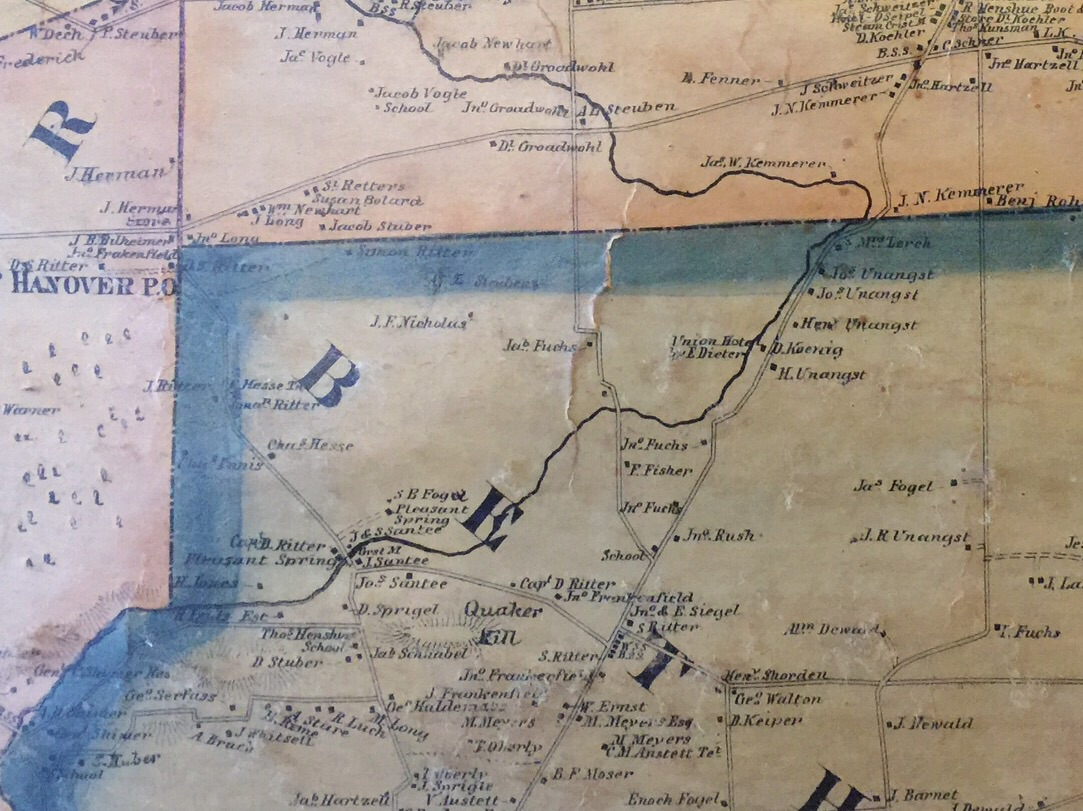 Portion of map of Northamption County, Pennsylvania publiahed in 1860 by Smith and Gallup Company of Philadelphia showing parts of Bethlehem and Lower Nazareth Townships and the Monocacy Creek